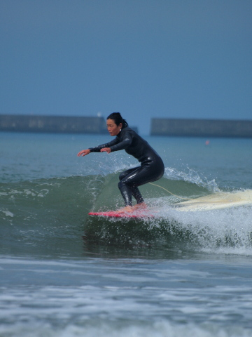 A surfer at Hama-atsuma, Atsuma, Hokkaido.